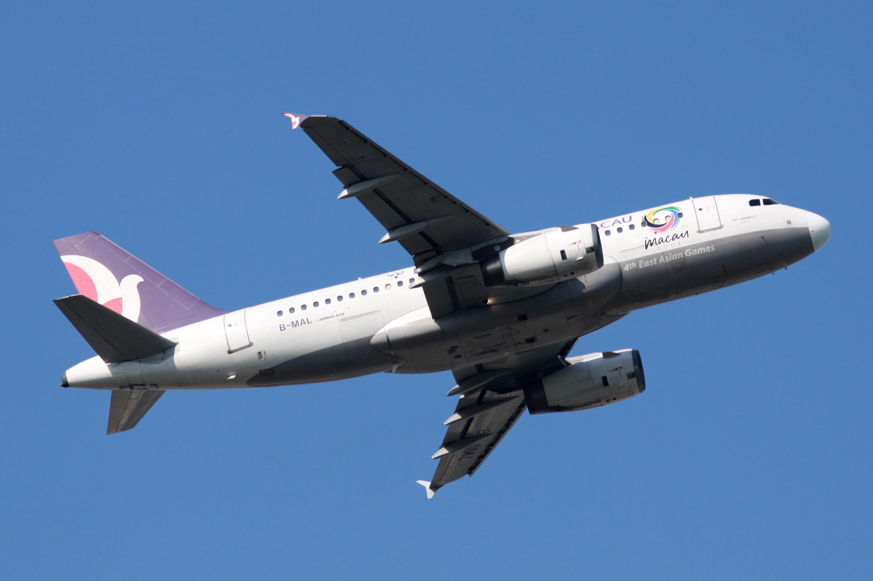 Narita International Airport, Airbus A319-132, c/n:1790, Air Macau